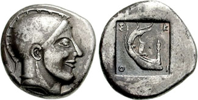 Coinage of the Greek city of Skione. Circa 480-470 BC. The area became Macedonian in 356 BC.